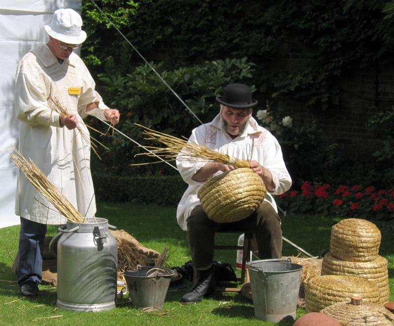 Making traditional beehives called skeps. Photograph taken by Michael Reeve, 27 June 2004.